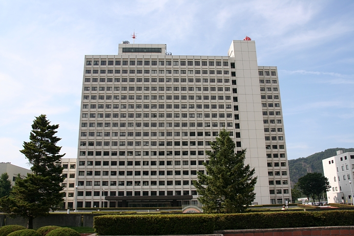 Yamagata Prefectural Office (Yamagata City, Yamagata Prefecture, Japan.)